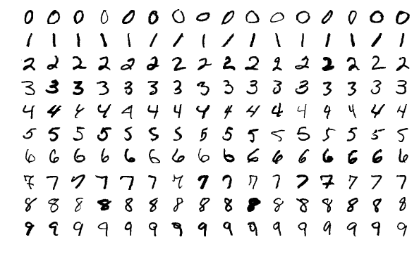 A few samples from the MNIST test dataset.